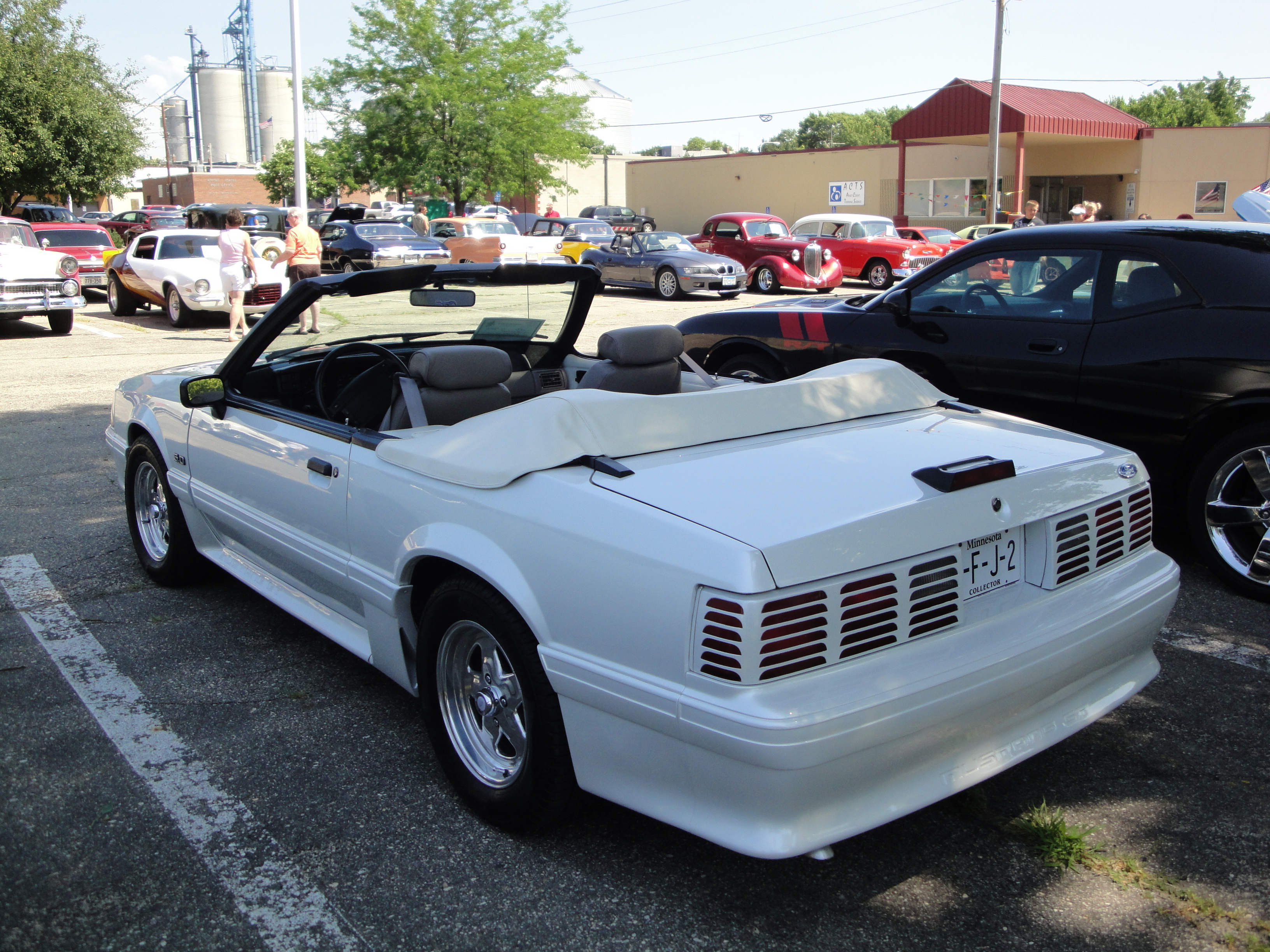 Corn Capital Days Olivia, Minnesota